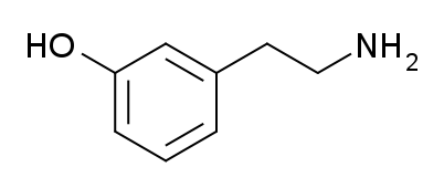 Structure of meta-tyramine